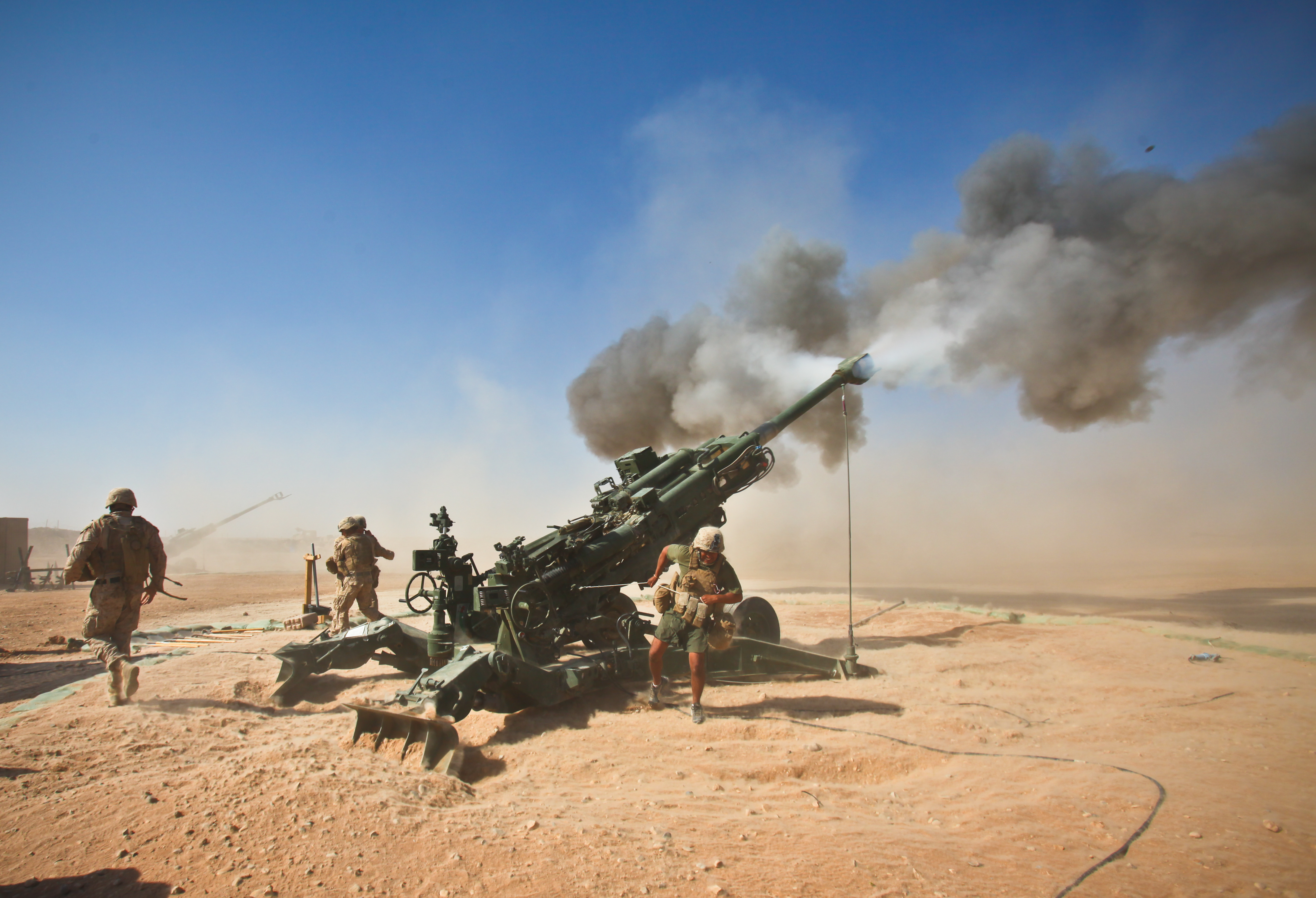 Marines with Charlie Battery, 1st Battalion, 12th Marine Regiment, fire an M982 Excalibur round from an M777 howitzer during a recent fire support mission. In between fire missions, the Marines continue with daily life. They also mentor their Afghan National Army counterparts and constantly rehearse their positions to guarantee their artillery rounds hit their targets when coalition forces need their help.